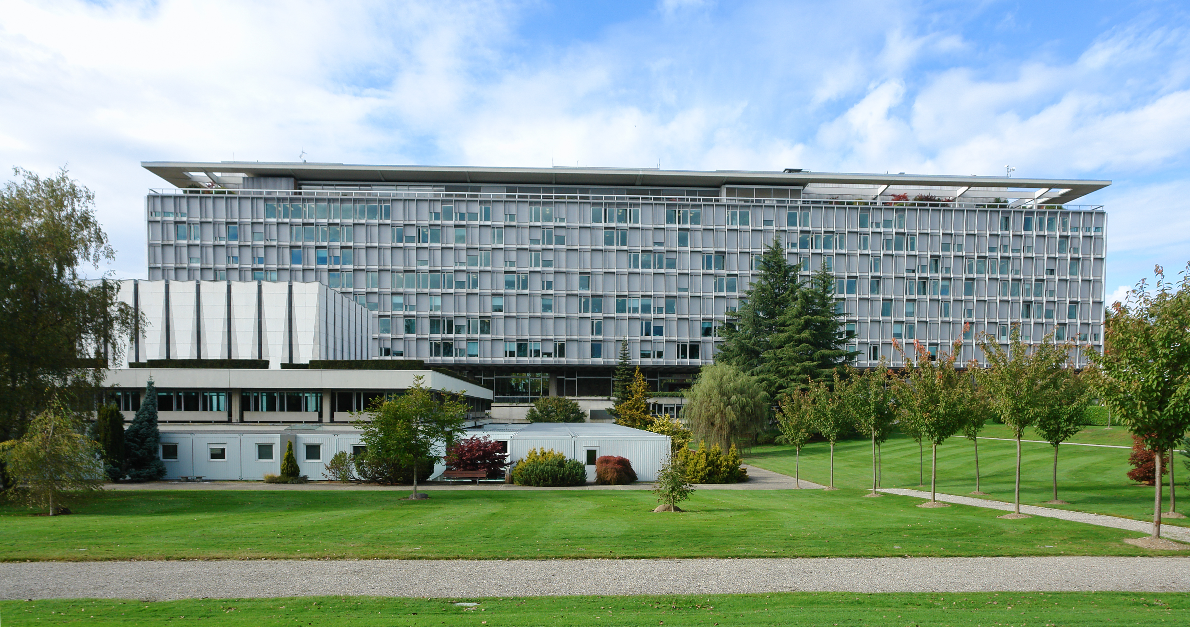 World Health Organisation building south face, Geneva